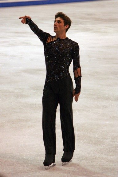 Brian Joubert at the the 2009 World Championships.